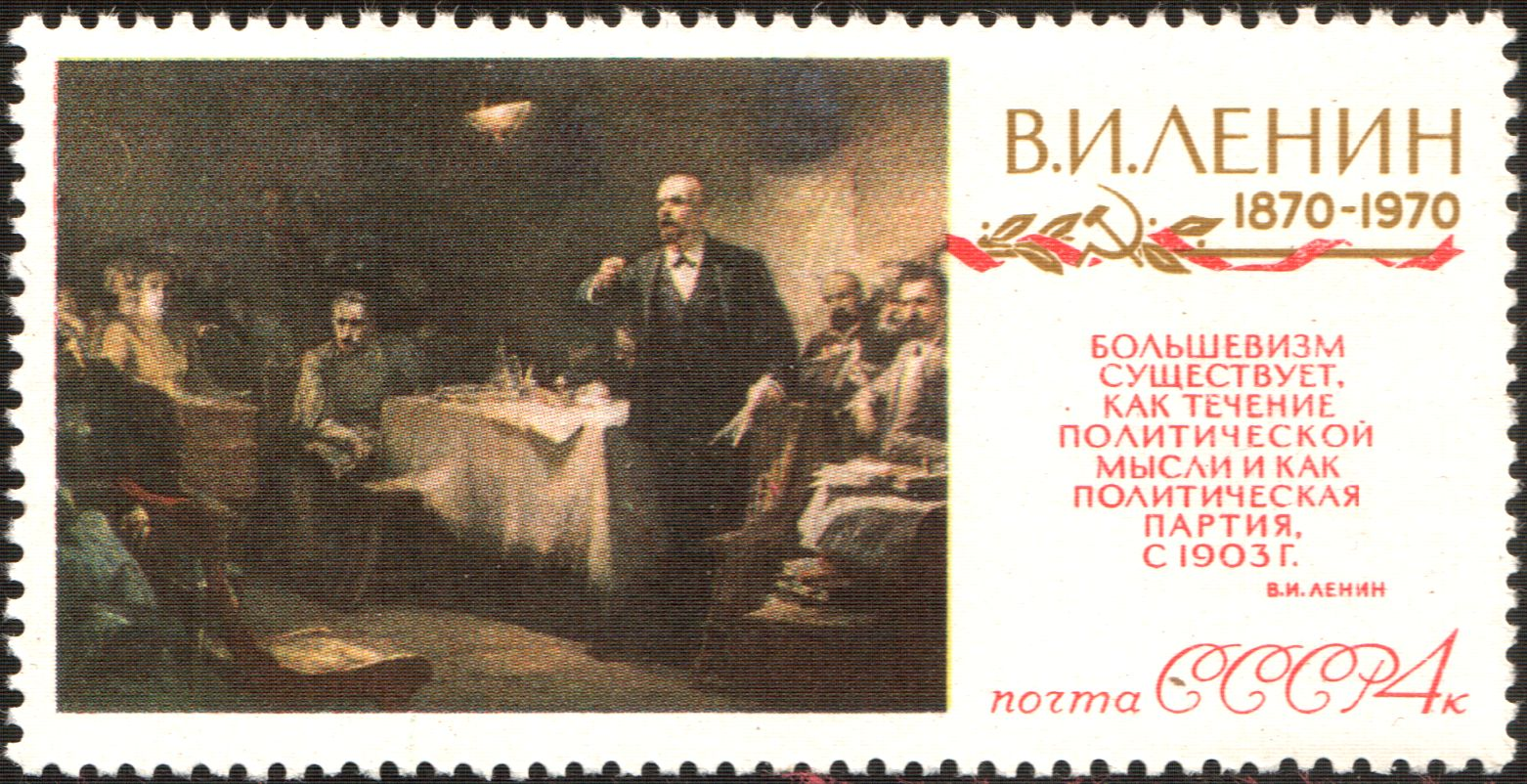 USSR stamp: 2nd Congress of the RSDRP (After Yuri Vinogradov). Series: Centenary of Birth of Vladimir Lenin (1870-1924). Lenin on Paintings